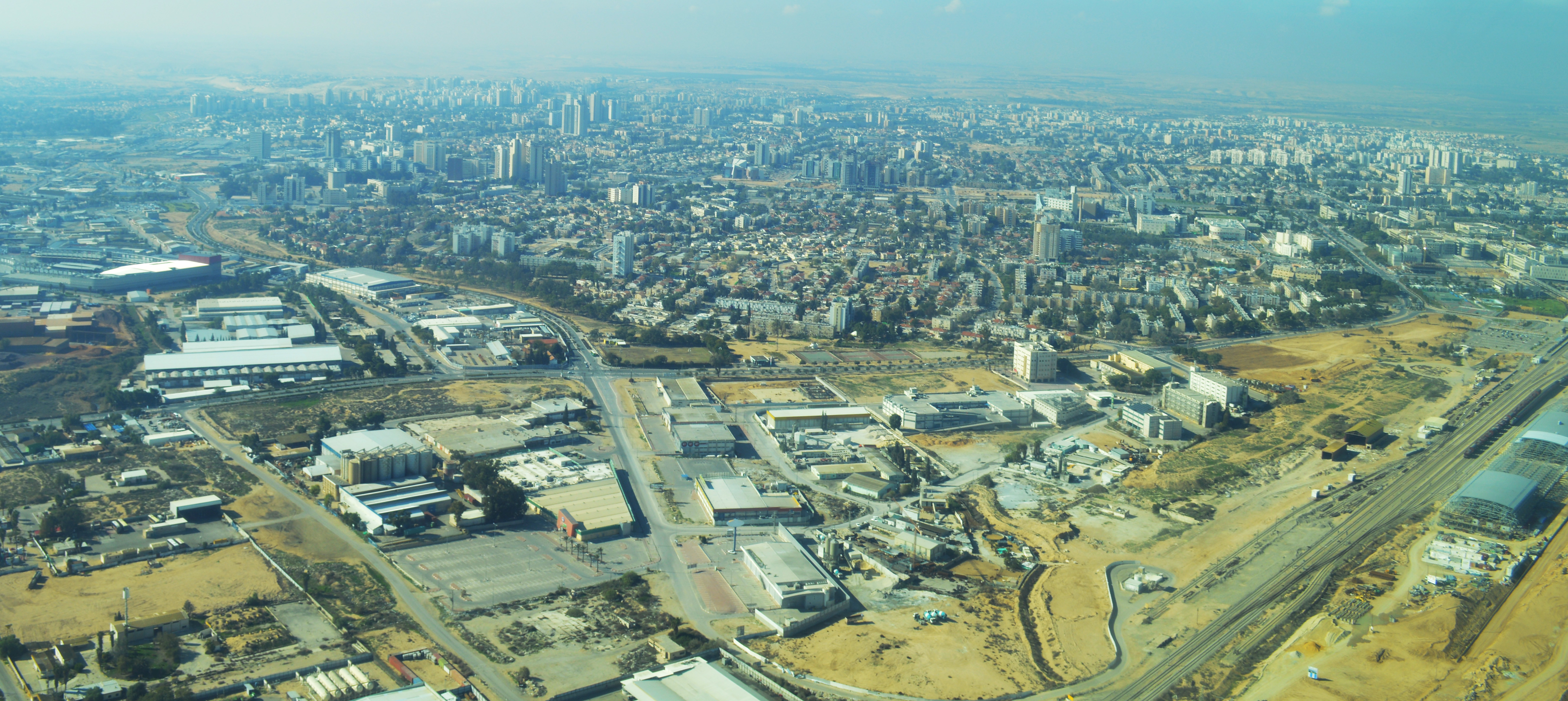 Beer Sheva Aerial View